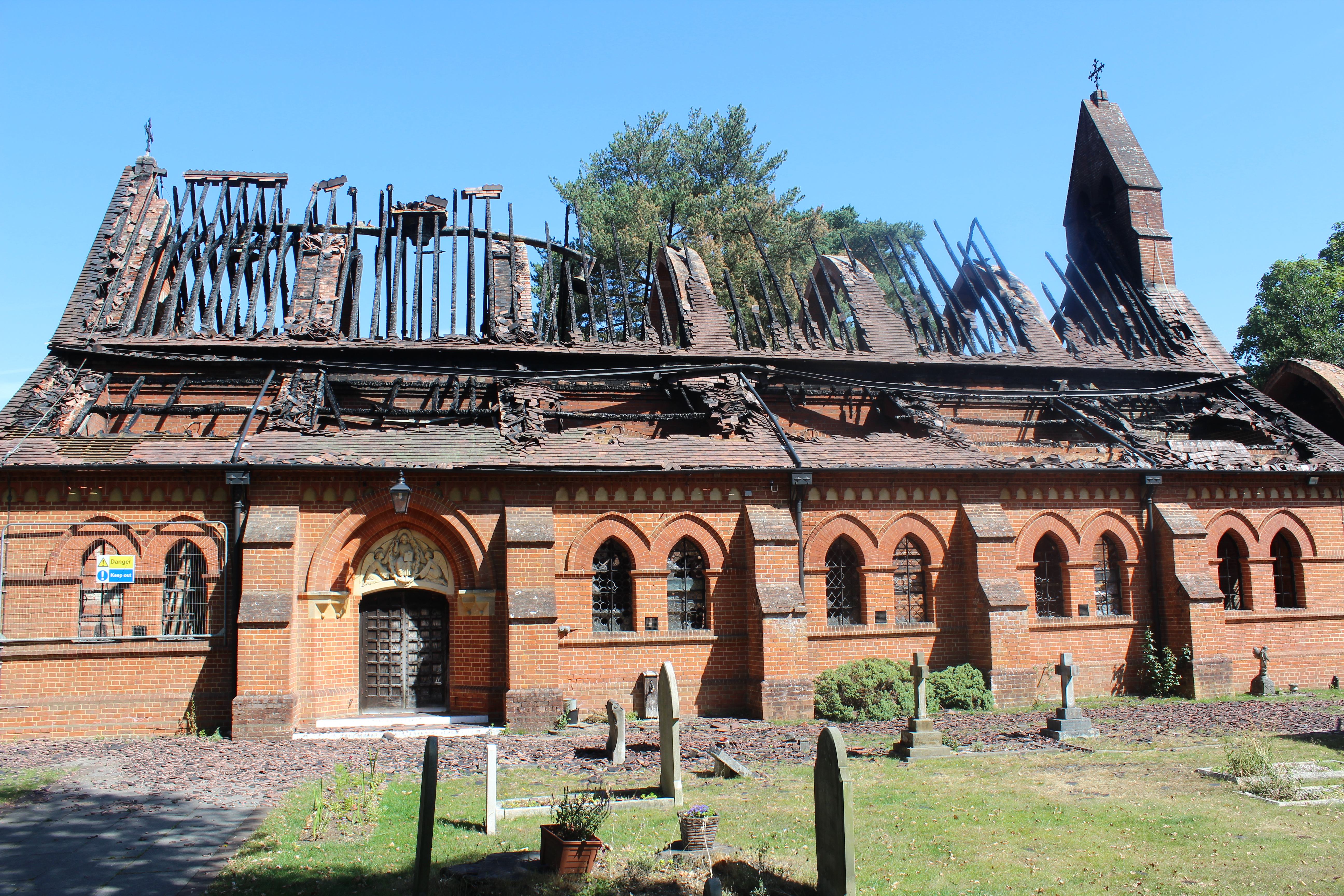 All Saints Church, Fleet after the fire of 22 June 2015.